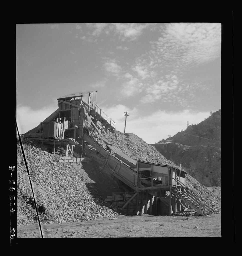 New Idria mercury mine, San Benito County, Northern California. Original caption: "A part of a mercury extraction plant of the New Idria Quicksilver Mining Company. Triple-distilled mercury is produced from cinnabar, an ore containing sulphur and mercury."